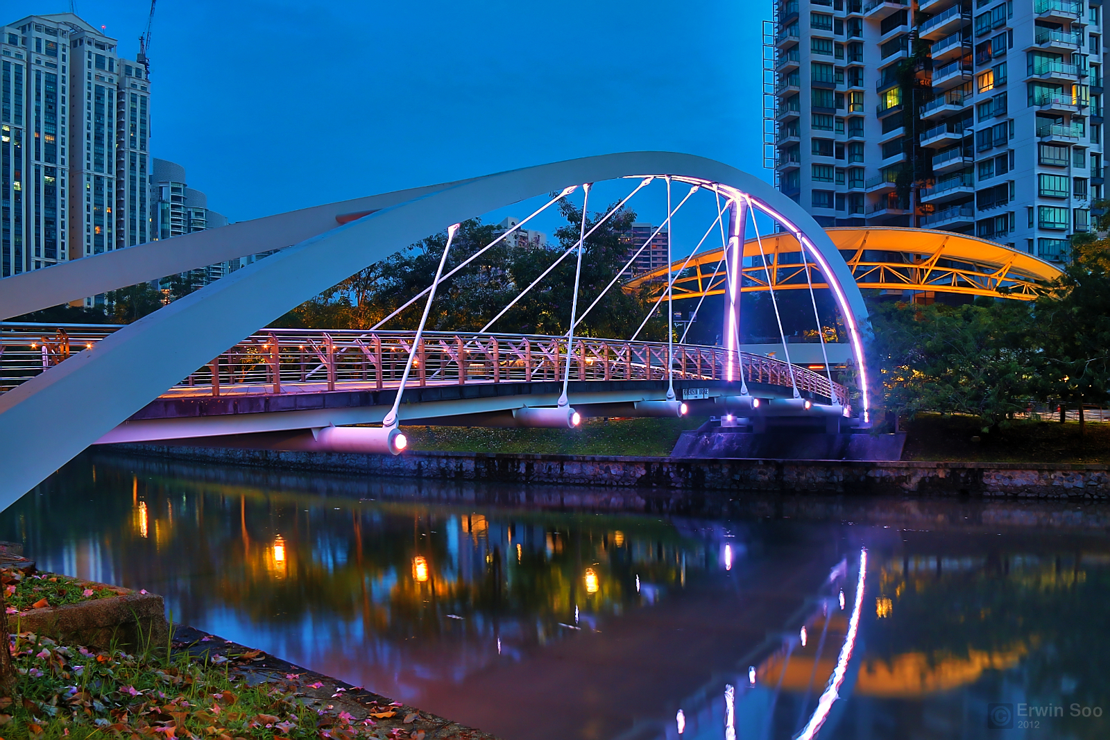 Robertson Bridge over Singapore River